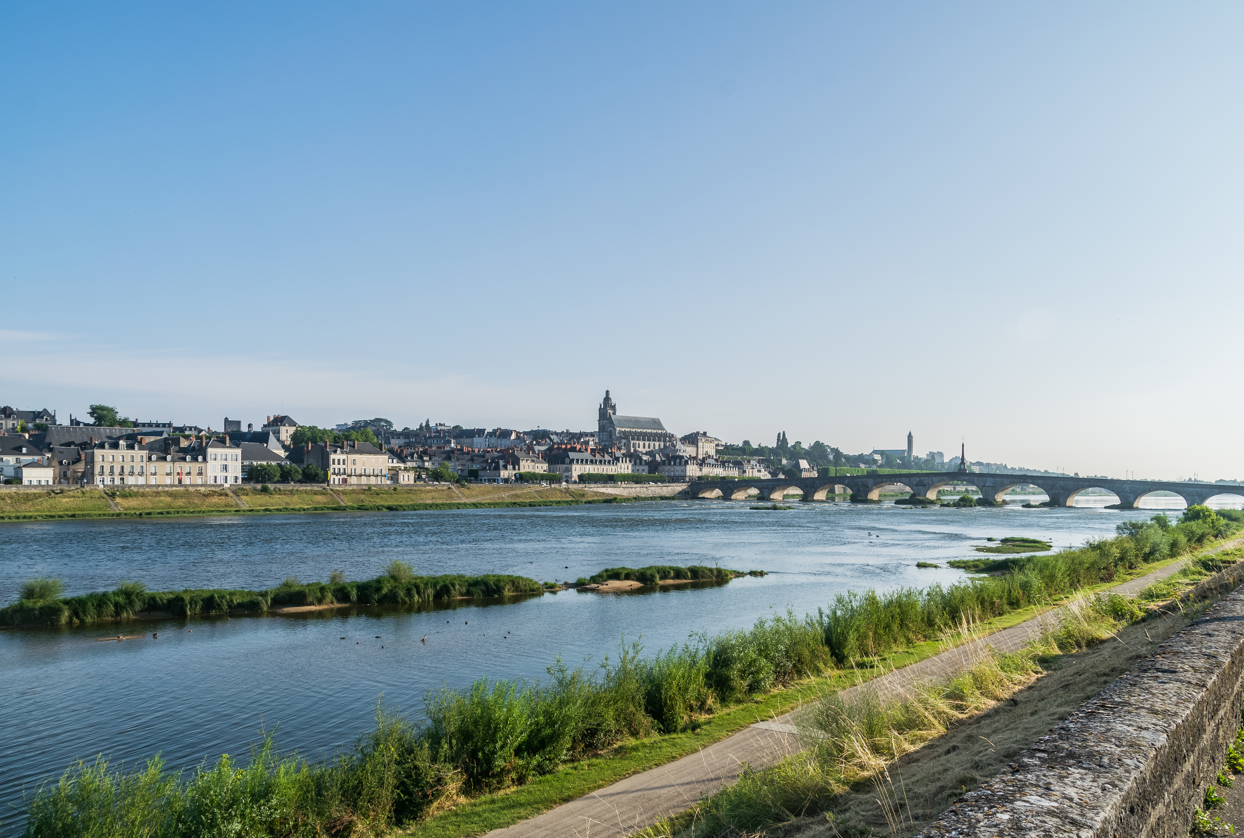 Loire River in Blois, Loir-et-Cher, France